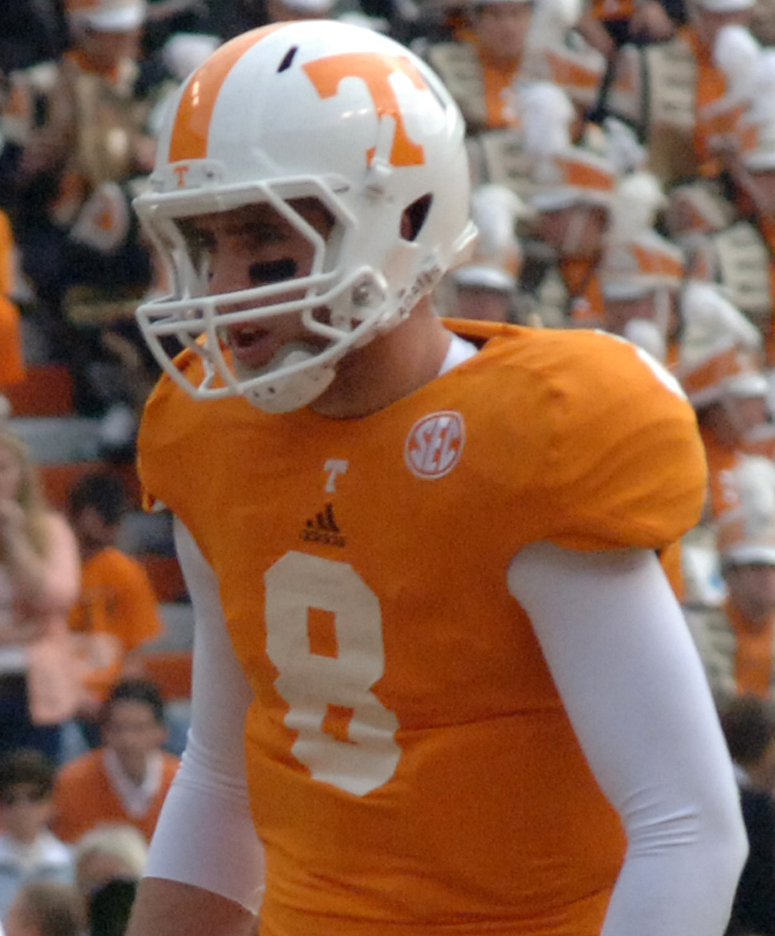 Quarterback Tyler Bray commands the Tennessee Volunteers offense during a game at Neyland Stadium in Knoxville, Tenn., Nov. 3, 2012. The Vols escaped with a victory 55-48. It was military appreciation day at the game and a contingent of U.S. Army Corps of Engineers Nashville District employees attended and paid tribute to former district engineer and Tennessee coaching legend Brig. Gen. Robert R. Neyland. The coach holds the record for most wins in Vols history and led the team to four national championships. (USACE photo by Leon Roberts)